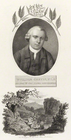 William Curtis with 'The Frontispiece to Mr Curtis' Flora Londinensis' by William Evans, published by Robert John Thornton stipple engraving and etching, published 1 March 1802. 18 3/4 in. x 12 7/8 in. (475 mm x 328 mm)